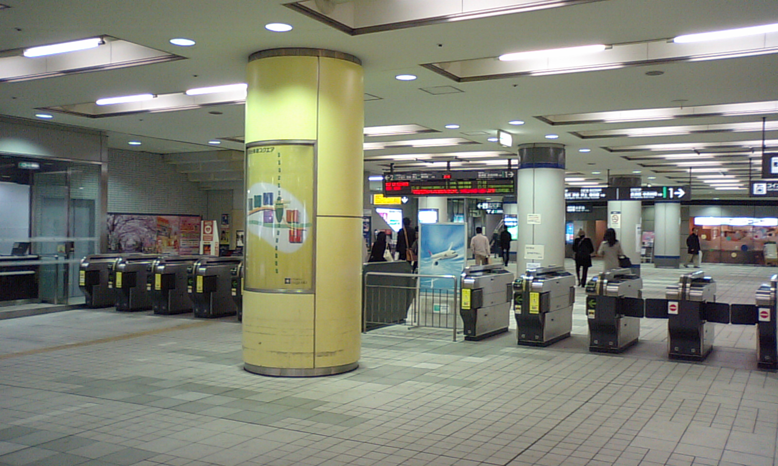 Main Gate of Aobadai Station.